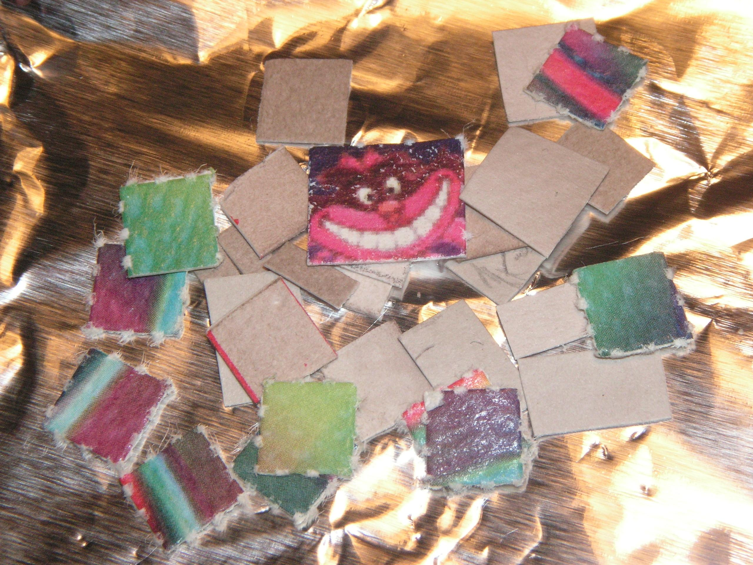 Different kinds of Blotters from around the Country